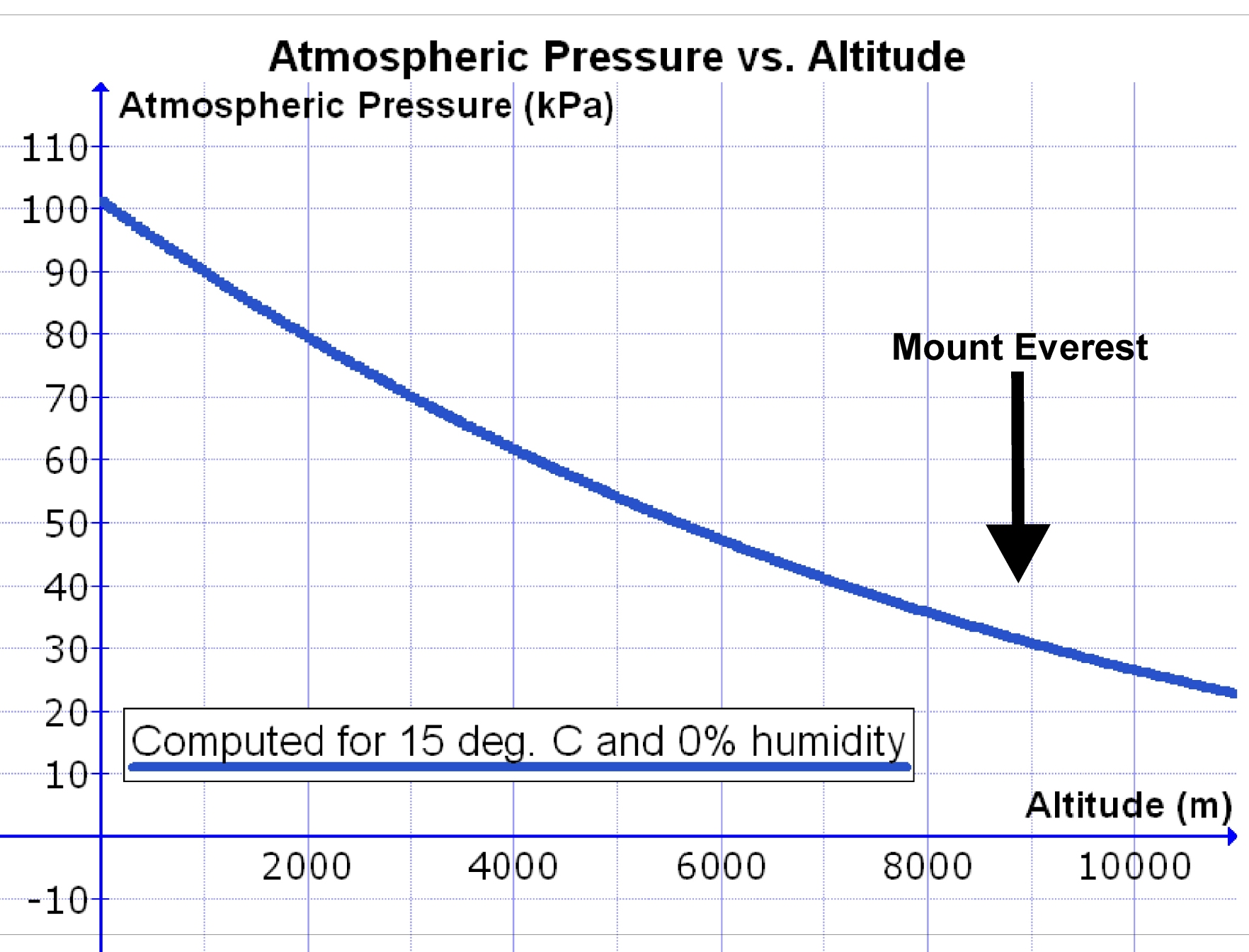 Based on User:Geek.not.nerd's "Atmospheric Pressure vs. Altitude.png" graph. Only change is the indication of the air pressure (and altitude) of Mount Everest